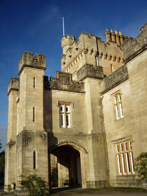 Minard Castle